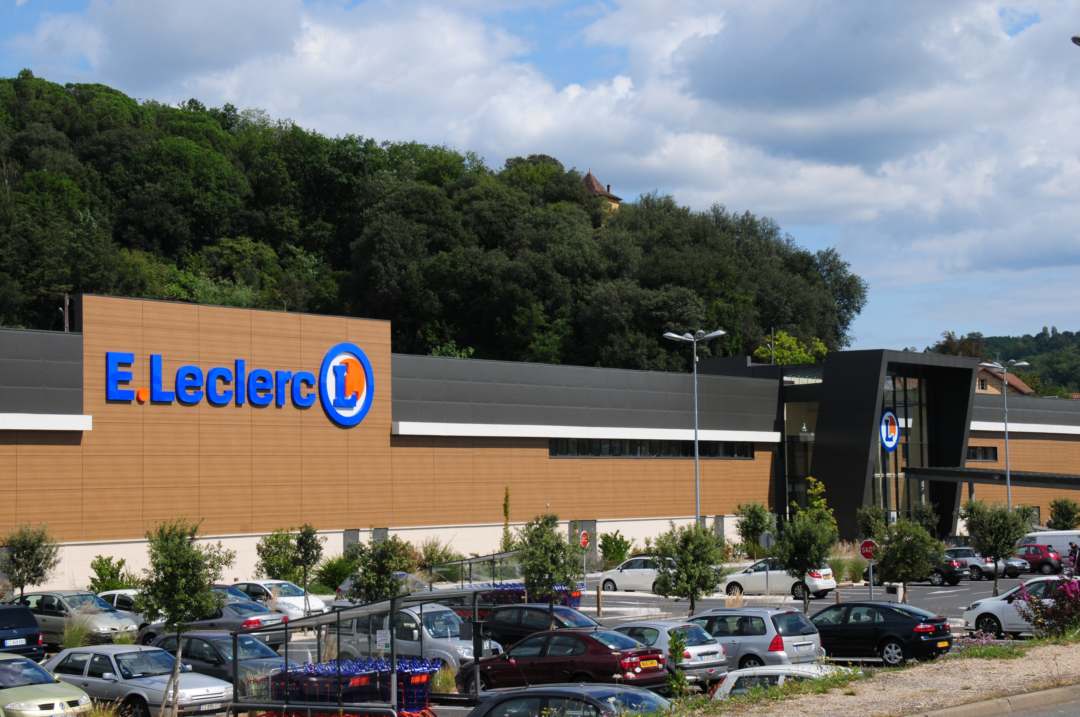 New shopping center Leclerc at Sarlat-South